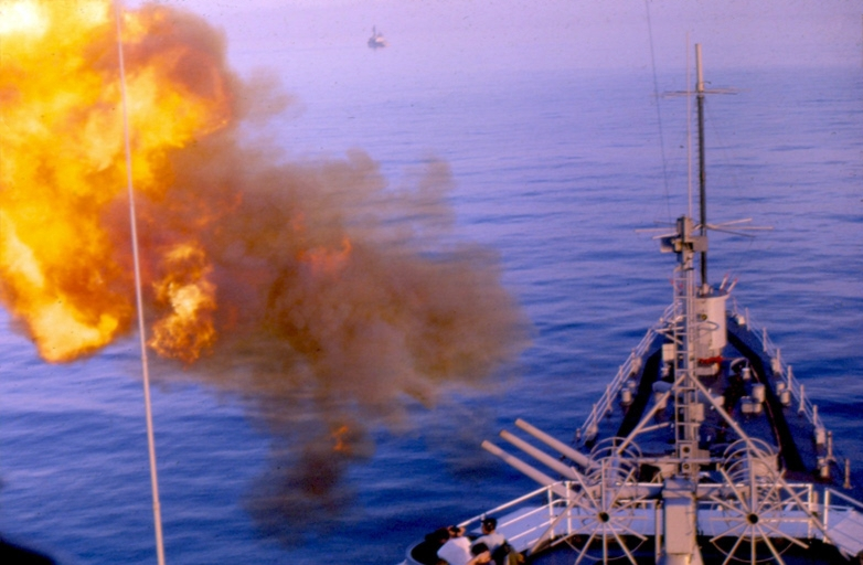 The U.S. Navy guided missile cruiser USS Oklahoma City (CLG-5) firing the 15.5 cm guns in the early 1970s.